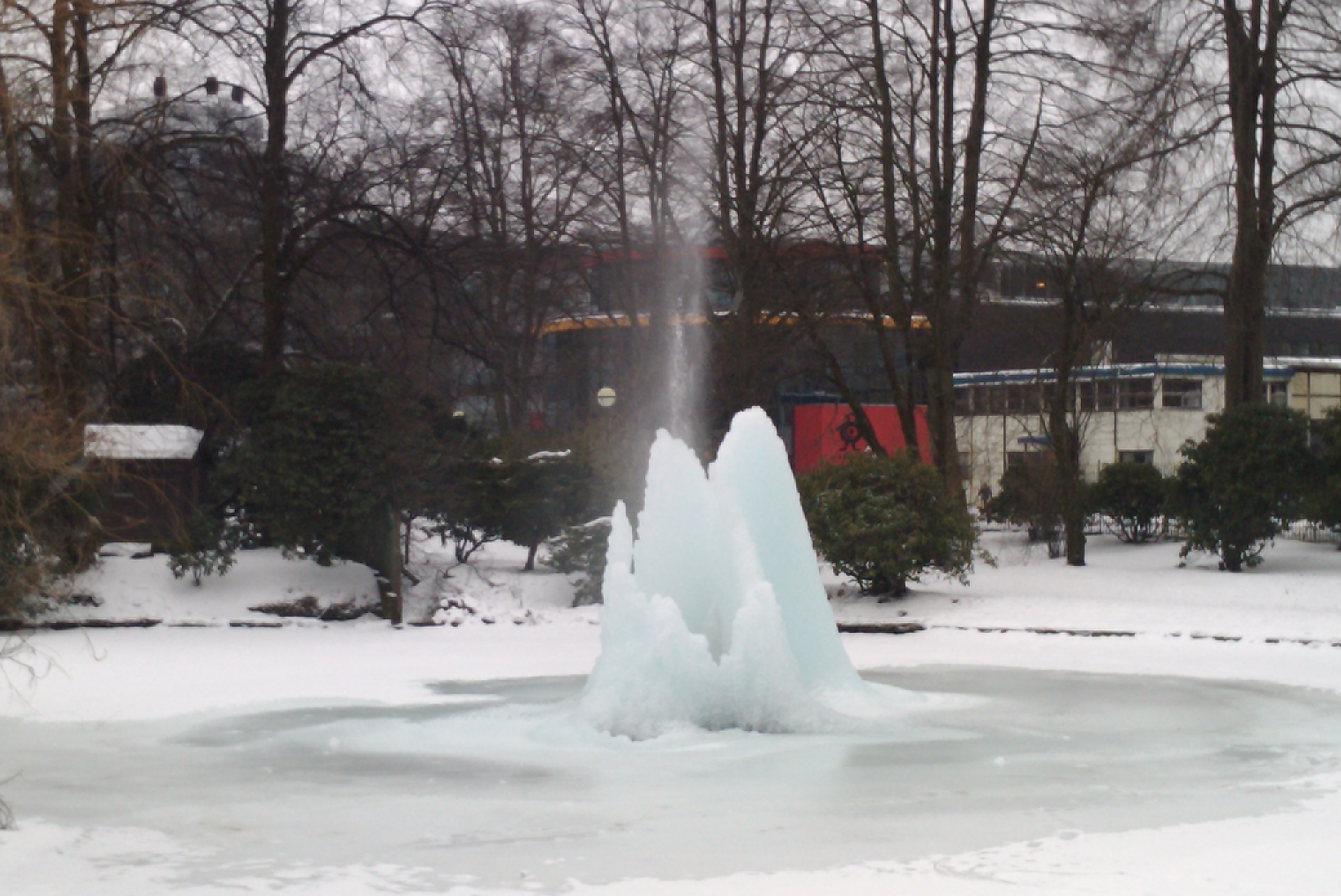 winter in snow